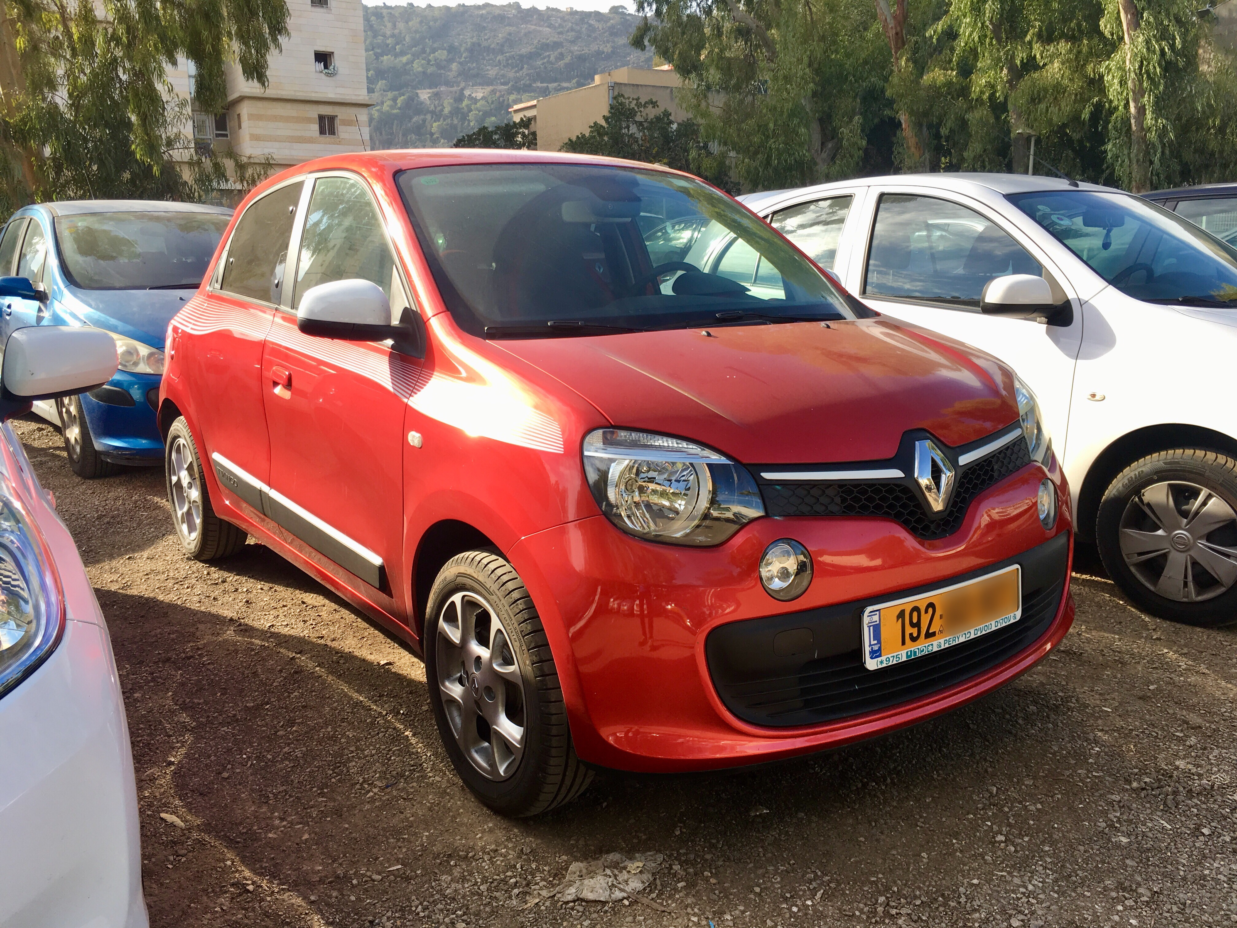 Twingo